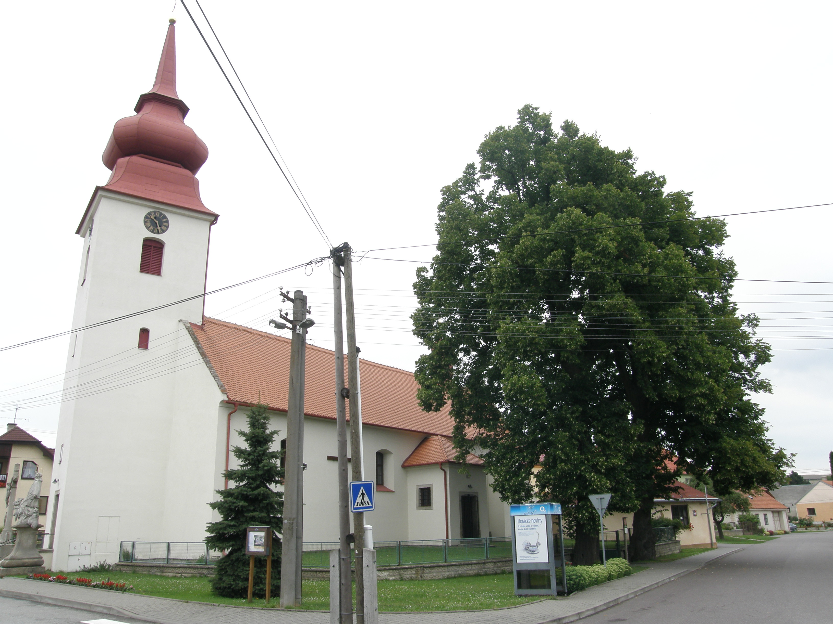 Two famous trees Tilia cordata near the St. Prokop church in Třebíč District, Czech republic.